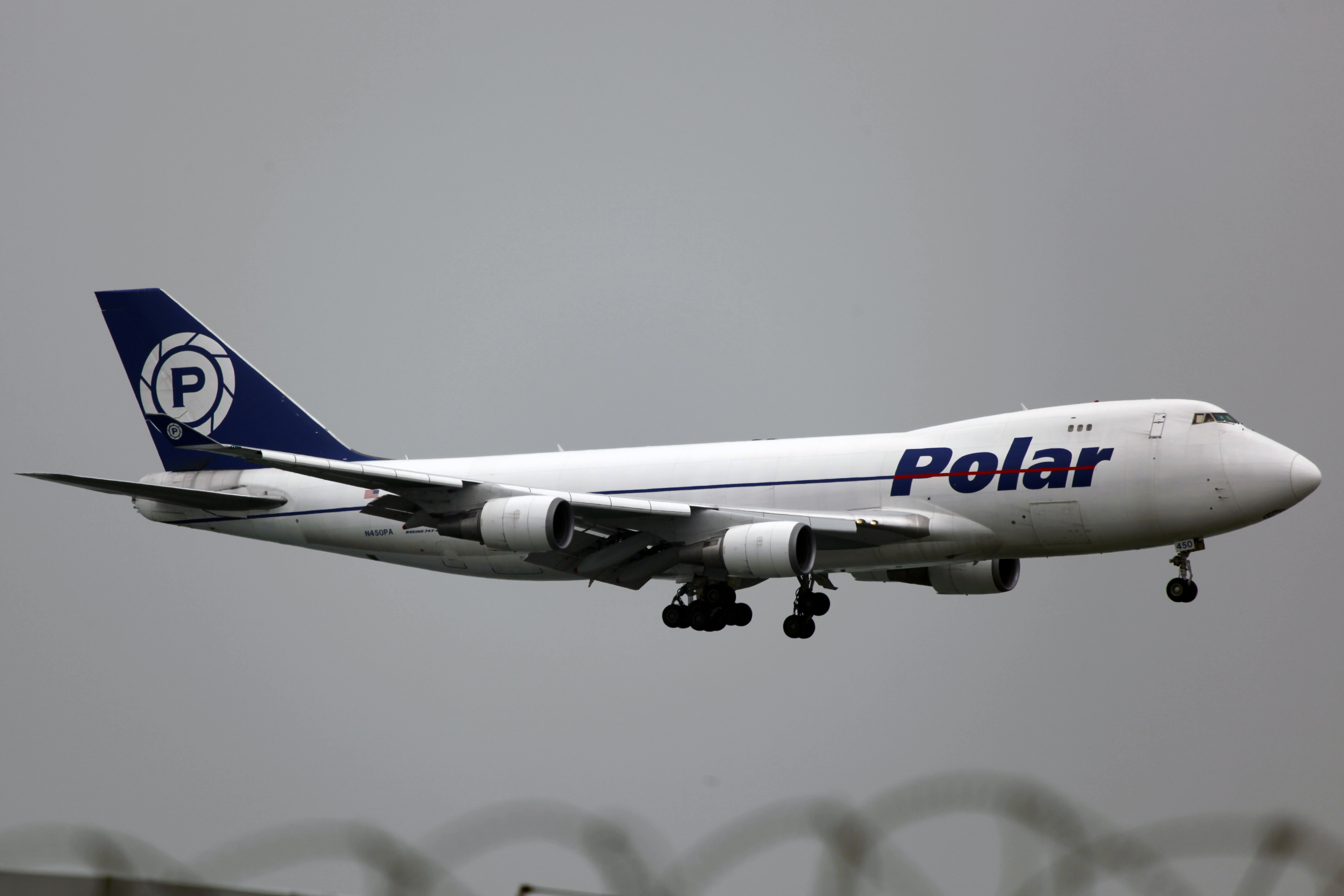 N450PA | Polar Air Cargo | Boeing 747-46NF | Hong Kong Chek Lap Kok International Airport [HKG]